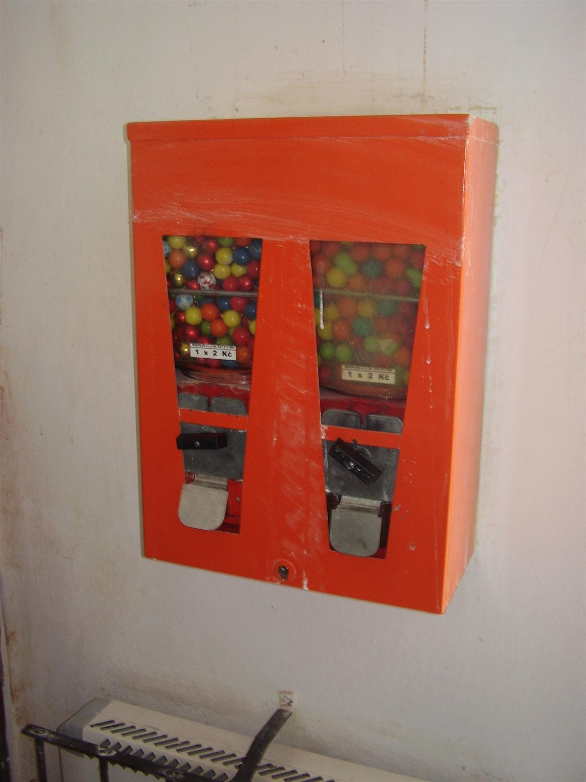 Chewing gum maschine